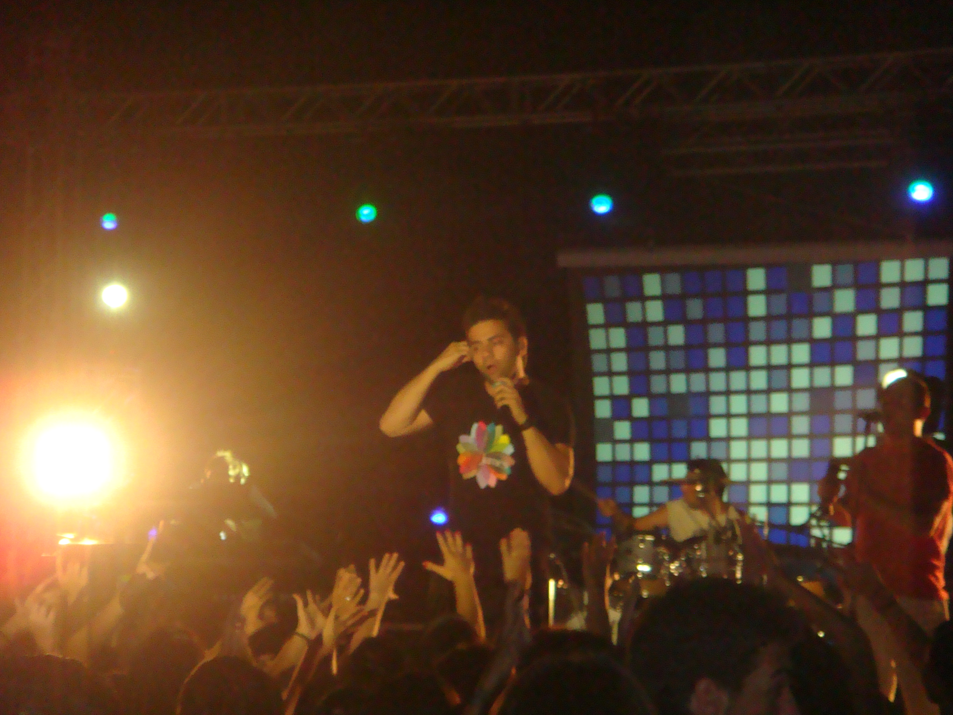 The group Onirama while performing during a Pieria concert in Agia Triada, Vrontou, Dimos Diou, Pieria, Northern Greece.